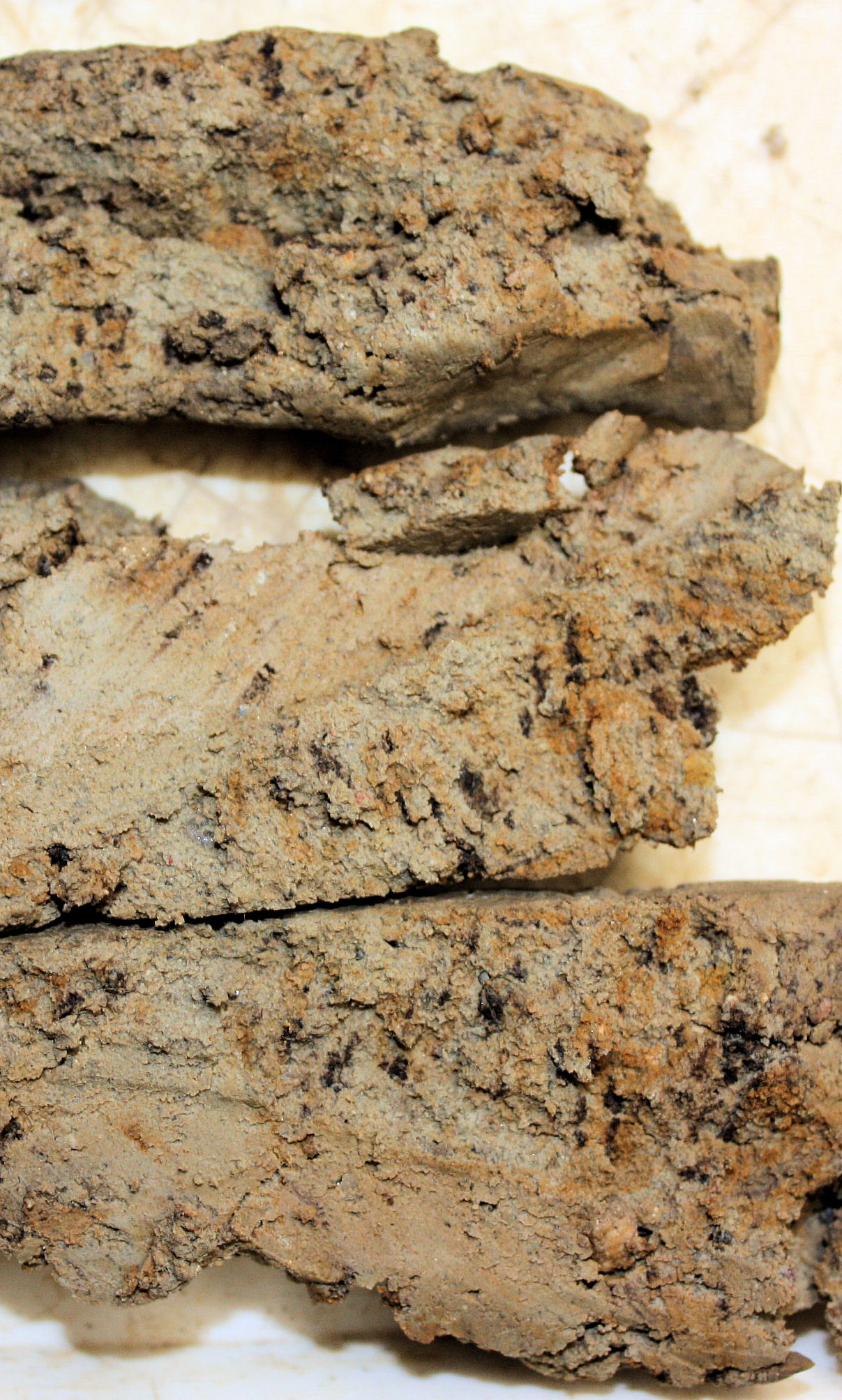 Weathered olive grey clay till with stains of ochre and manganese oxides